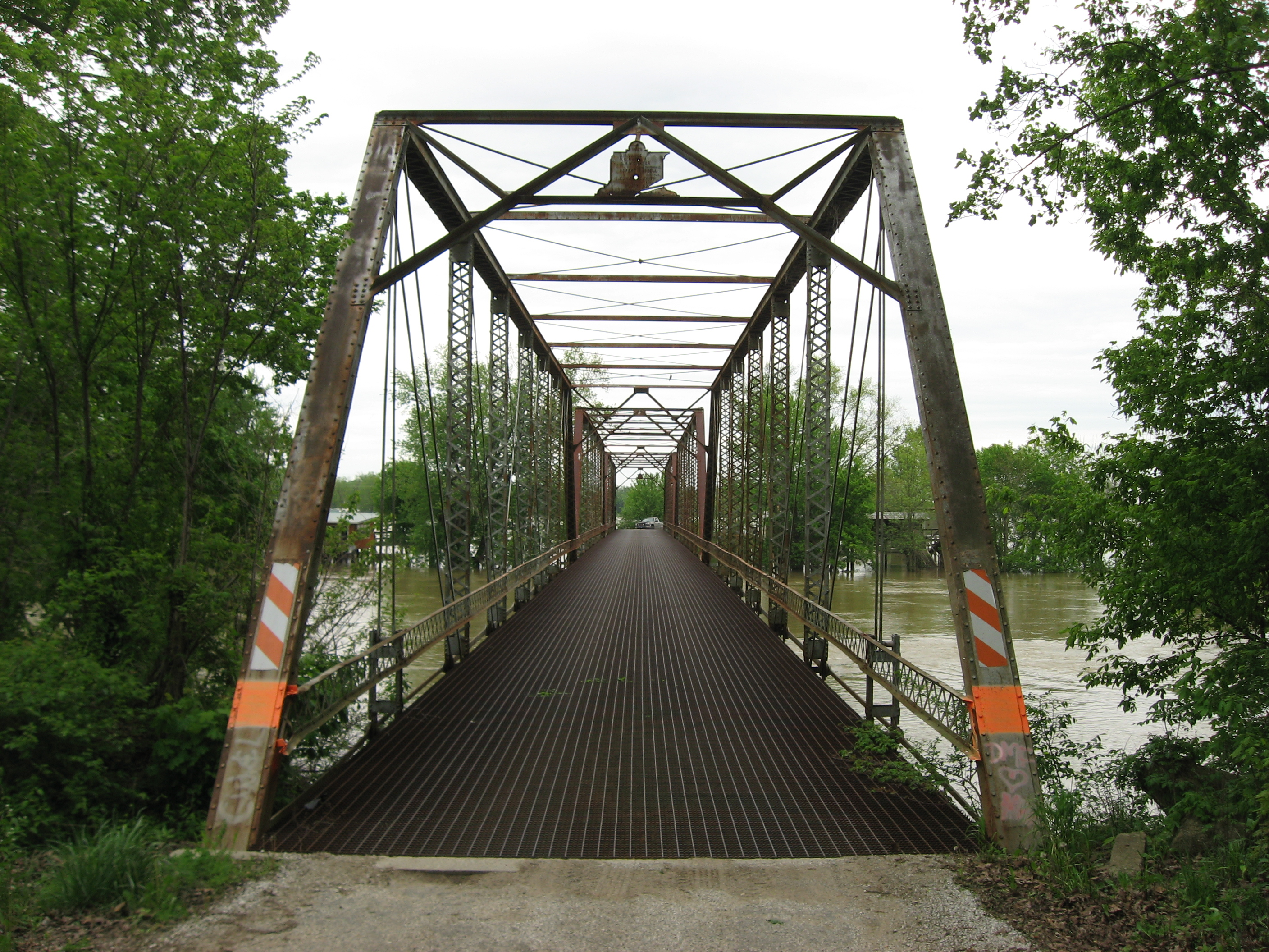 Western portal of the County Bridge No. 45, which carries County Road 229 (Knox County)/County Road 150N (Daviess County) over the White River northeast of Wheatland, Indiana, United States. Built in 1903, it is listed on the National Register of Historic Places. This photograph is taken at a time of flooding: the houses and trees visible in the distance are normally on the far side of the river, not in its middle.